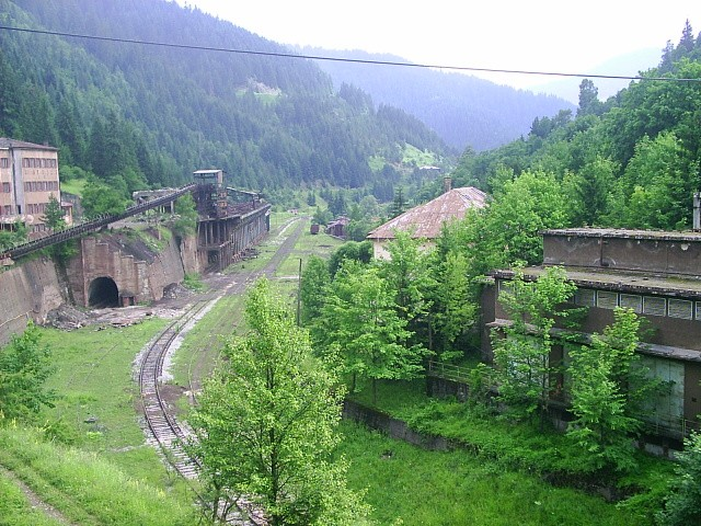 Former metal processing plant facilities in Vareš, Bosnia and Herzegovina